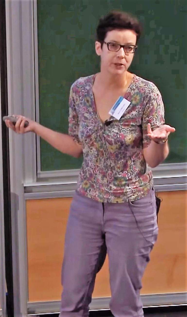 English botanist Anne Osbourn lectures on "Mechanisms of chemical diversification in plants" in 2015